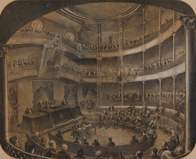 Lithography of Domingo F. Sarmiento reading his first discuss as President of Argentina to the Parliament of that country.